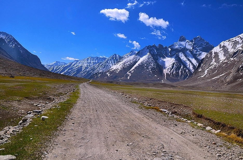 Roads in Suru Valley,Ladakh